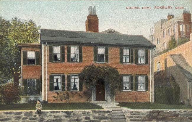 The Munroe House, Roxbury, Massachusetts. Built in 1683, it was the oldest surviving house in Roxbury (according to inscription on card).